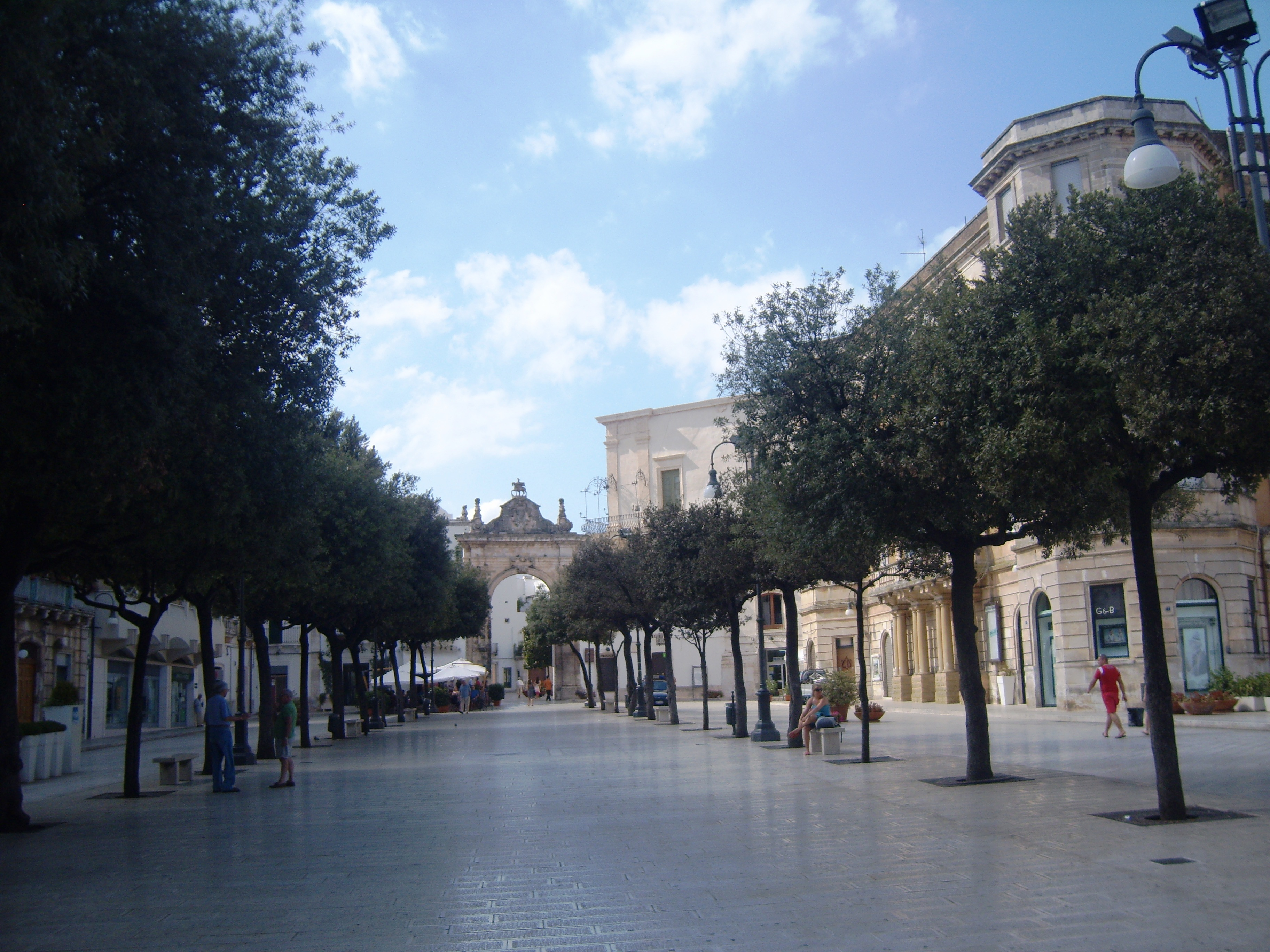 Piazza XX settembre. Martina Franca, Province of Taranto, Italy